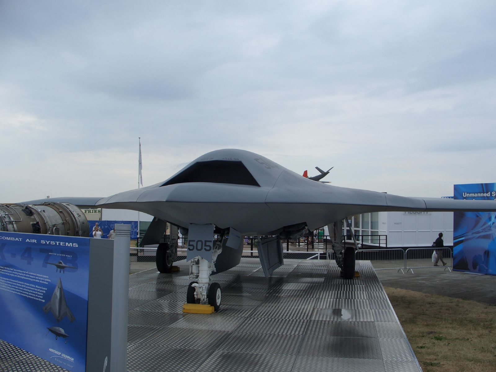 Even meaner-looking than the Global Hawk. And it explains quite a few years' worth of UFO sightings....